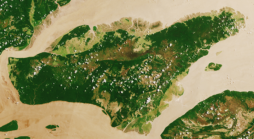 Satellite picture of Caviana island, in Pará, Brazil.